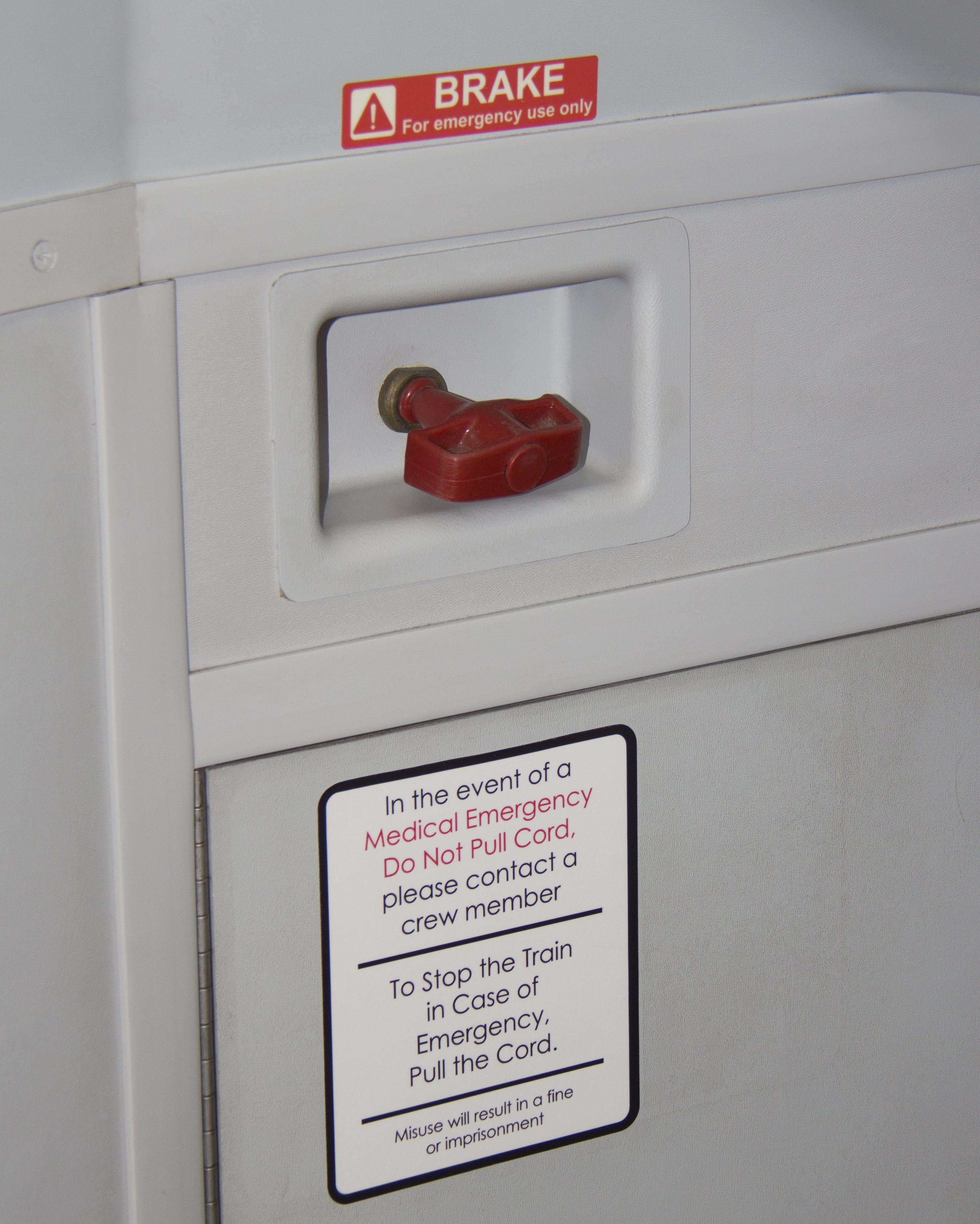 Emergency brake handle on Bombardier equipment used by the Seattle-area Sound Transit authority on their Sounder equipment.